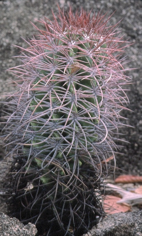 plant just starting cephalium, Bahia, Brasil